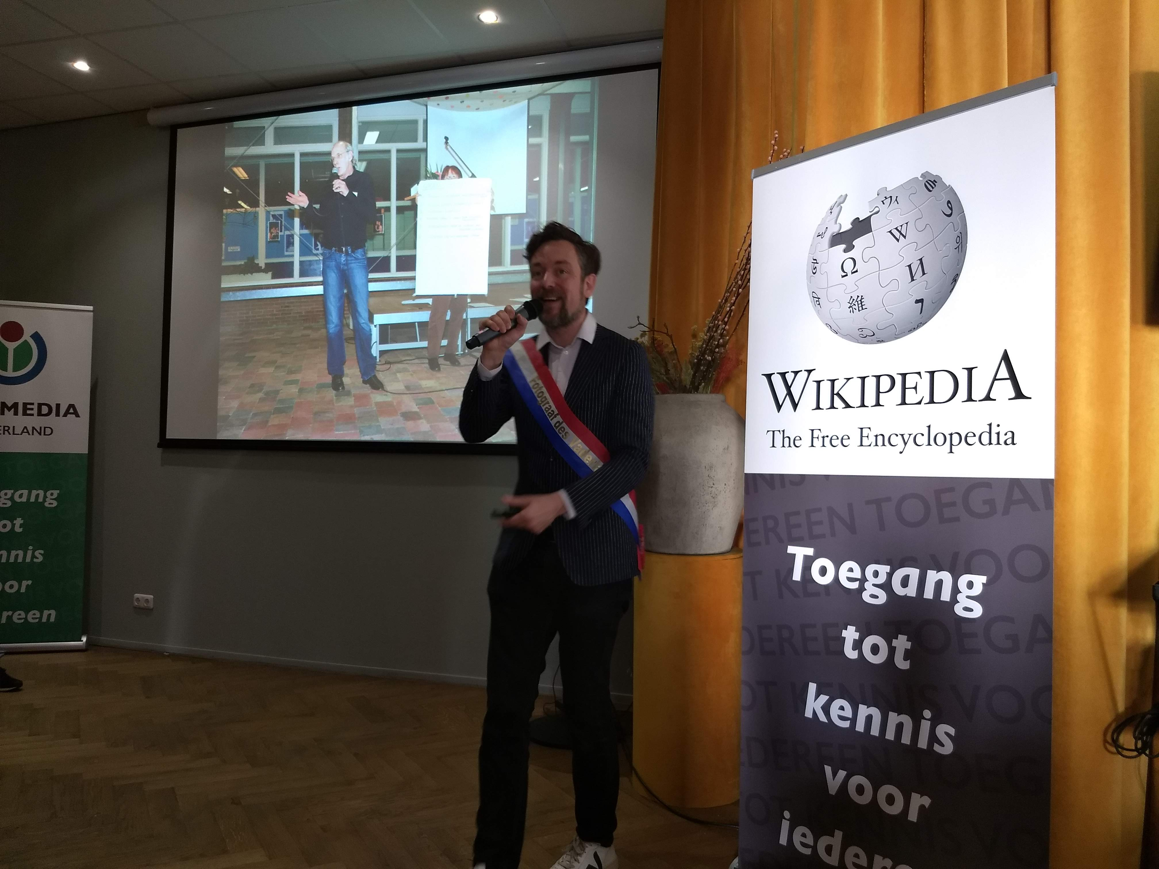 Jan Dirk van der Burg at WikiconNL 2019